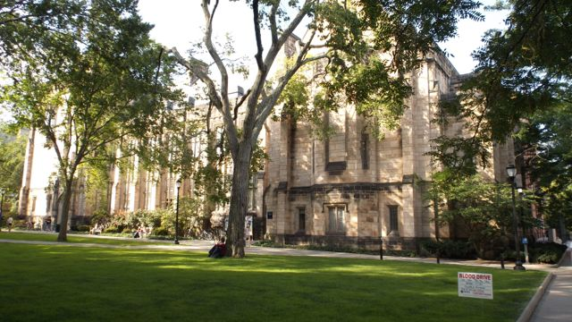 Was completed in 1927 as the gift of Mr. Willam L. Harkness, BA 1881, and his family. It is a Collegiate Gothic building of Aquia sandstone with Ohio sandstone trim and contains lecture and recitation rooms and offices for the departments of French, German, and Music. William Adams Delano was the architect. A complete renovation of the facility was undertaken in 1992.